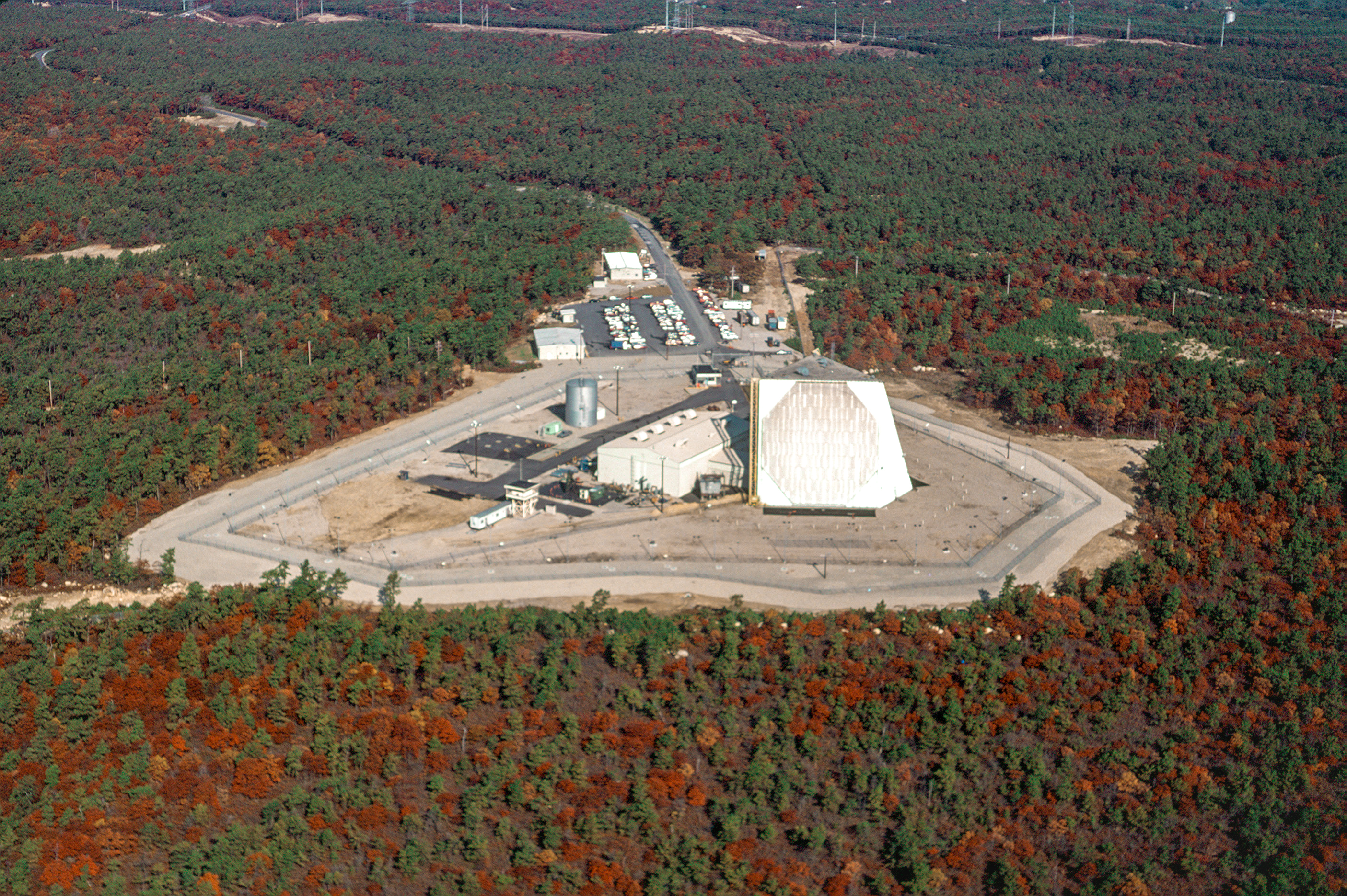 An aerial view of the AN/FPS-115 Pave Paws phased array warning system radar site. The system is designed to detect missiles launched at North America from submarines operating in the Atlantic Ocean. Location: CAPE COD AIR FORCE STATION, MASSACHUSETTS (MA) UNITED STATES OF AMERICA (USA)